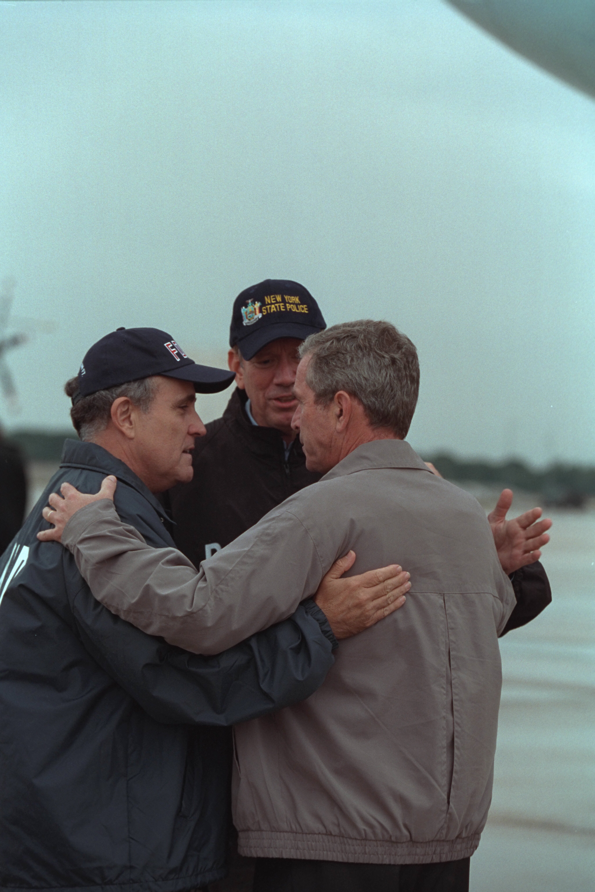 President George W. Bush is greeted by New York City Mayor Rudolph Giuliani, left, and New York Gov. George Pataki Friday, Sept. 14, 2001, upon arrival at McGuire Air Force Base in Wrightstown, N.J. Photo by Paul Morse, Courtesy of the George W. Bush Presidential Library